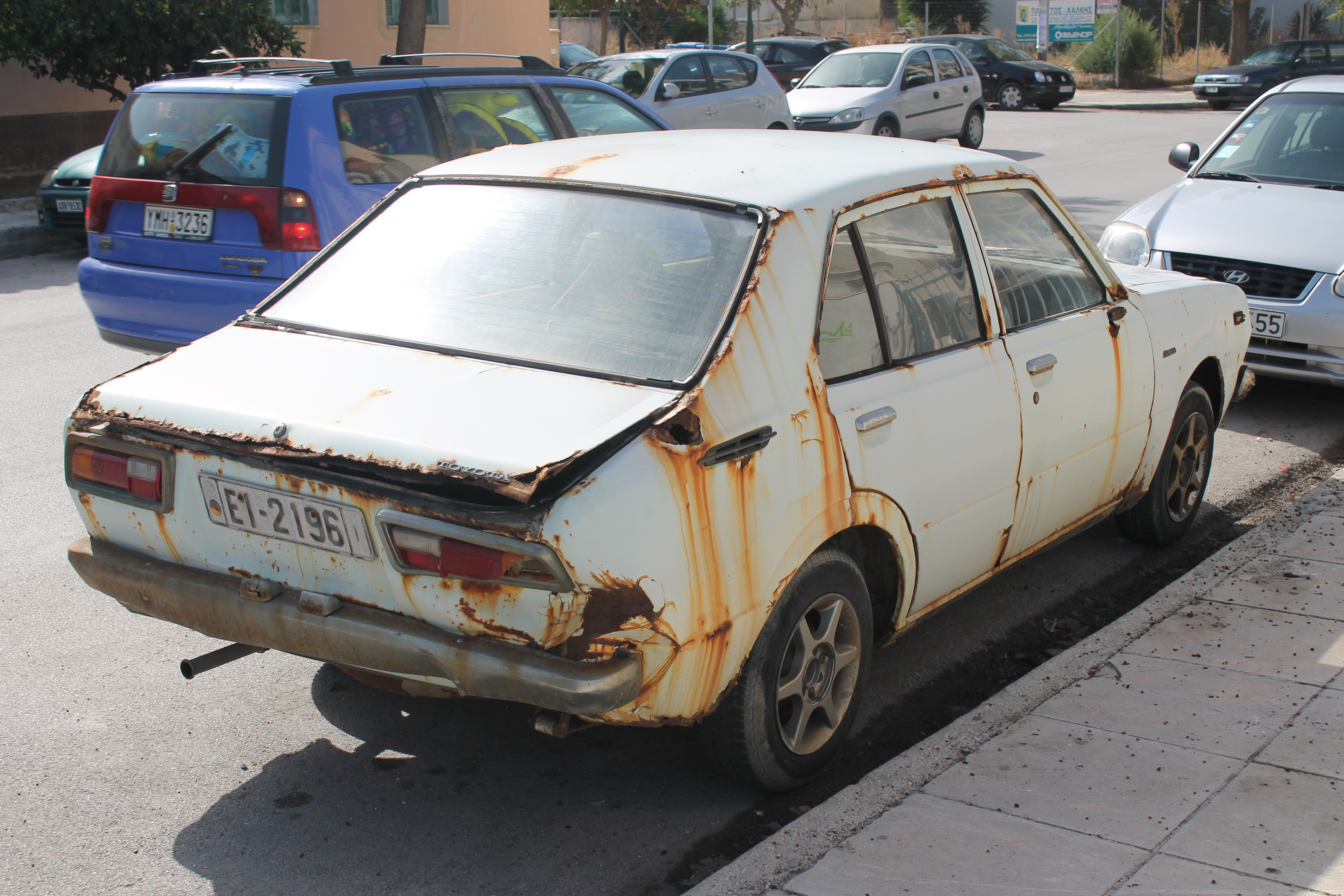 Has anyone ever seen a car as rough as this, which is STILL DRIVING?! I came to Greece expecting to see some rough cars, but this one really takes the biscuit. It's actually a pretty old car, a third generation Toyota Corolla. Hard to spot in most places, but the owner of this one is obviously going to run it into the ground, quite literally! Now I'm sure it's quite solid internally, but the rust will be destroying the bodywork. Has anyone ever seen a car quite as bangerish as this before, which is still on the roads?! Look at that massive dent at the back, and the boot doesn't look very secure... Massive dent in the nearside rear. I bet the lights don't work. It does drive though, as I saw it parked on another street in Corinth today.